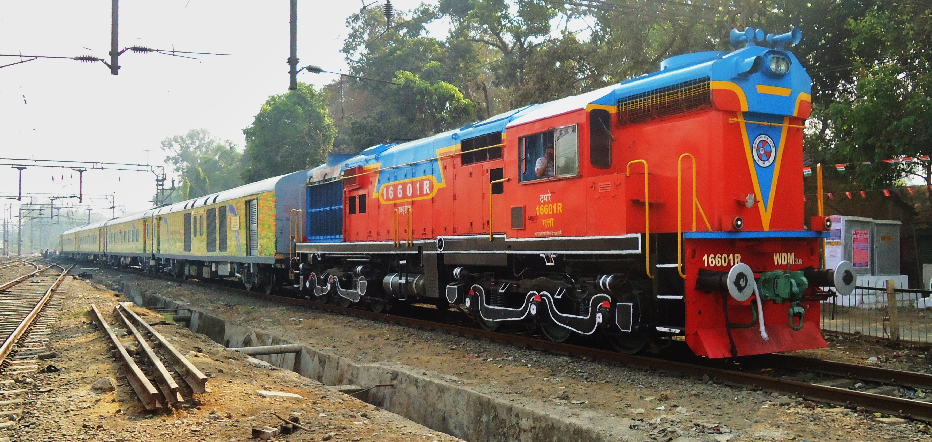 02219 up Secunderabad-Mumbai Kurla Lokmanya Tilak Terminus AC Duronto Inagural Spacial Express.